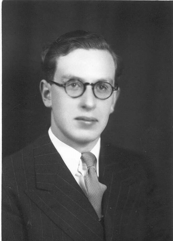 Rabbi Yaakov Herzog - Diplomat and doctor of International Law. The Son of Chief Rabbi of Israel, Yitzhak HaLevi Herzog, and brother of the President of Israel, Chaim Herzog. Served in senior roles in the Foreign Affairs office, led diplomatic communications with King Hussein of Jordan and the Vatican. Chief of staff at the office of the Prime Minister of Israel.